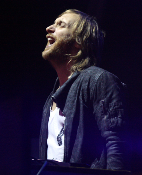 David Guetta Performs Live at Creamfields, Sydney, Australia 2012.